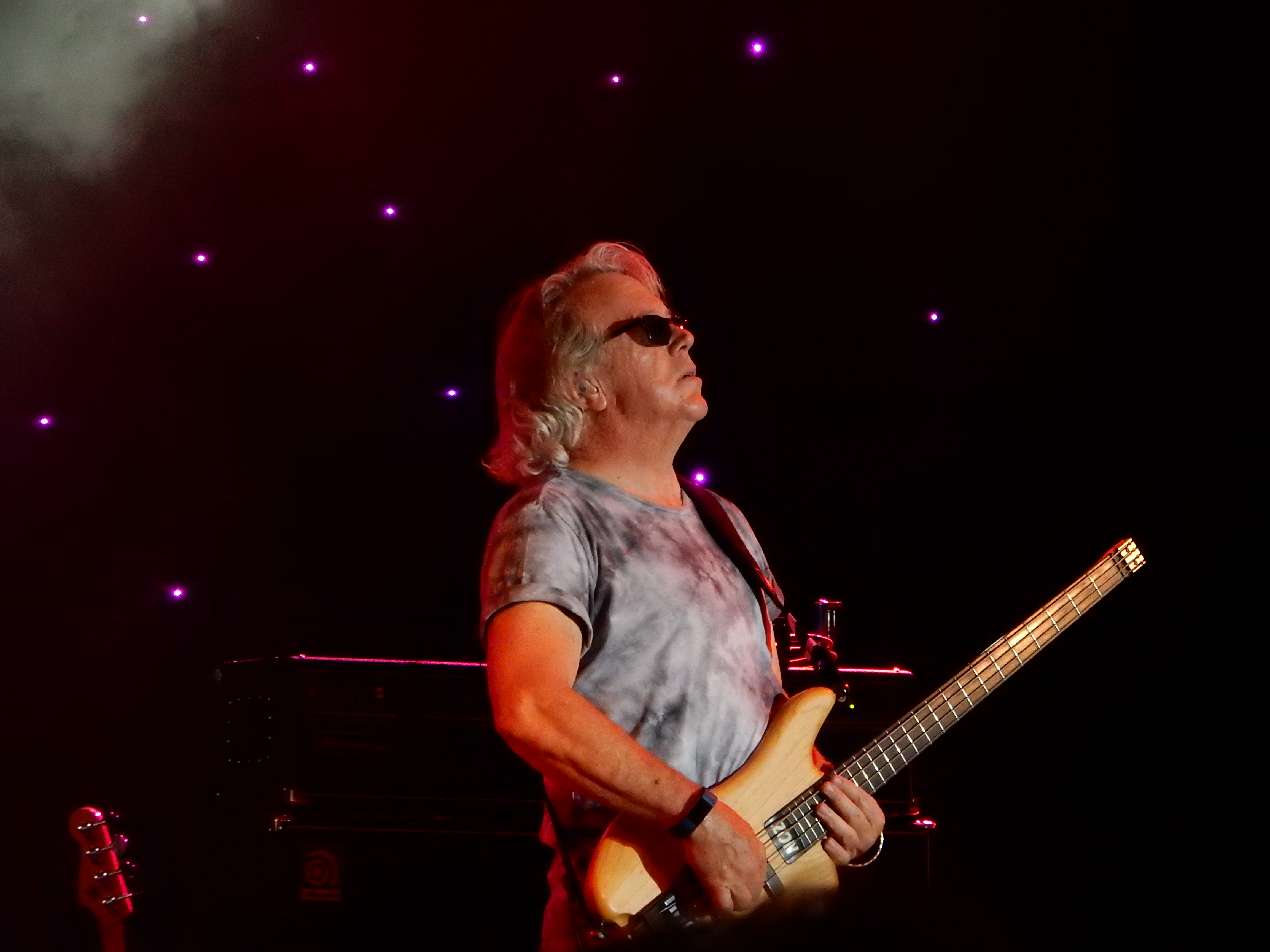 Ken Sinnaeve performing with Loverboy at Snoqualmie Casino on 6/16/2018